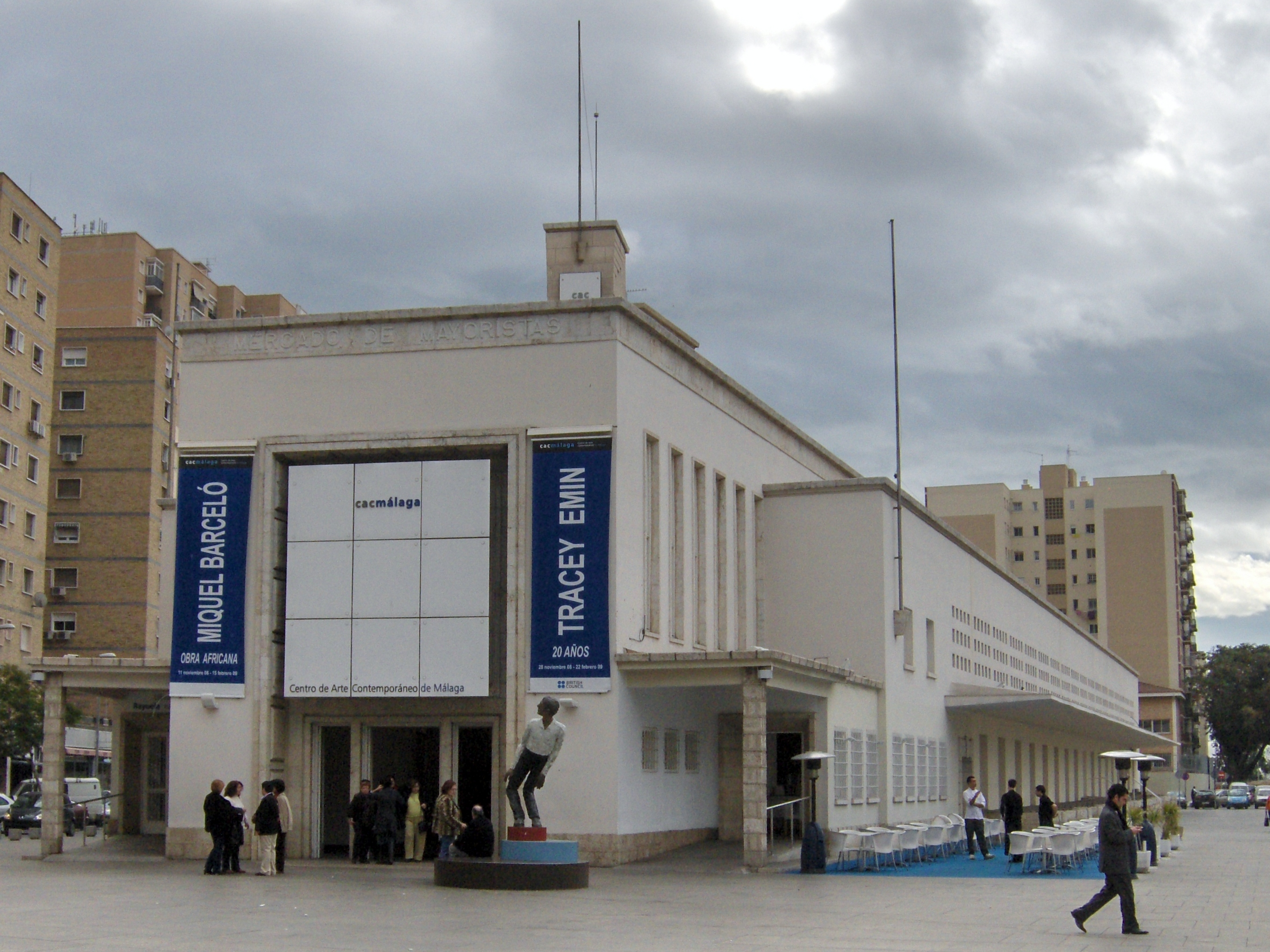 Center of Contemporary Art, Málaga, Spain.